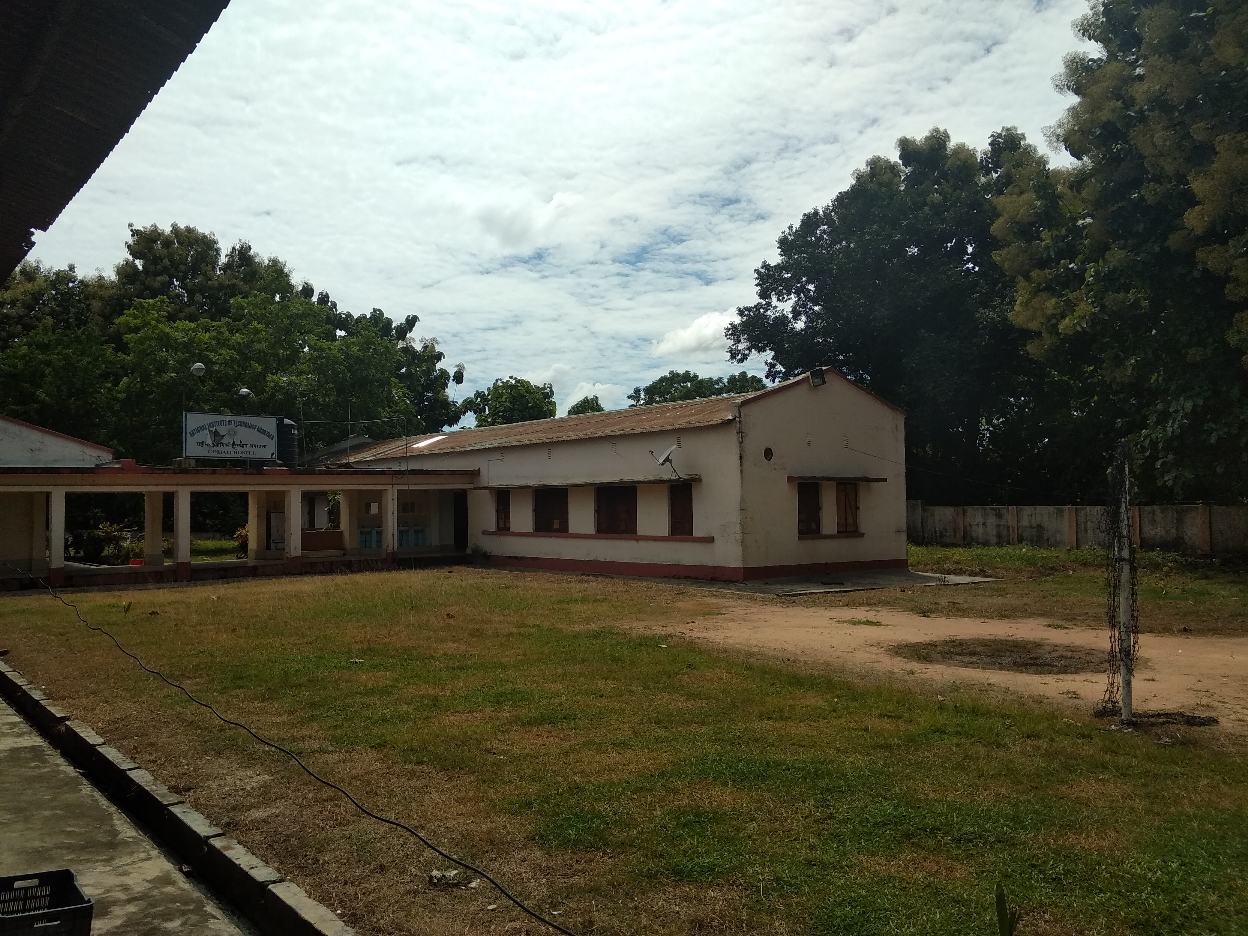 Old Dorm Room Row at NIT Agartala, Tripura. These Hostels are now Abandoned.